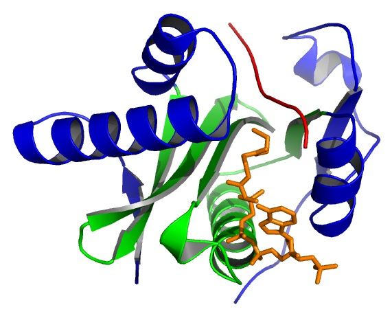 The crystal structure of the histone acetyltransferase Gcn5 from Tetrahymena with bound coenzyme A and an 11-residue histone H3 peptide (PDB 1QSN) is shown. The central core is shown in green, the flanking N- and C-terminal segments are shown in blue, coenzyme A is shown in orange, and the histone peptide is shown in red. This image was generated using PyMOL.